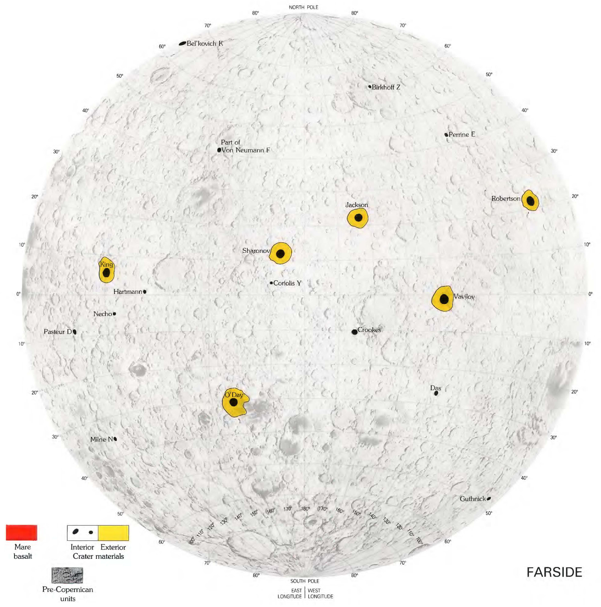 Map of the Copernican System on the far side of the moon. This is edited in minor ways from Plate 11B of The geologic history of the Moon by Donald Wilhelms (1987).